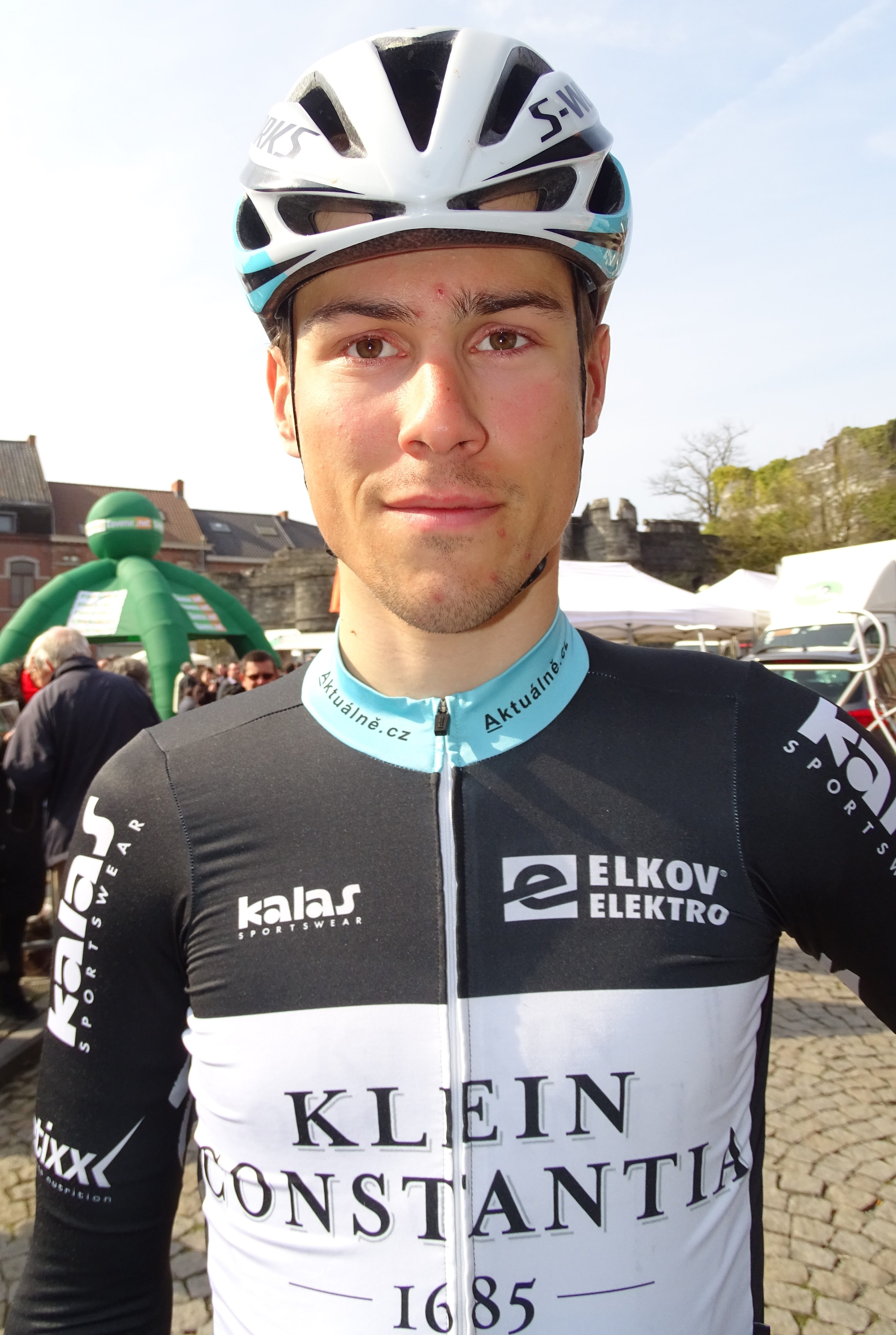 Triptyque des Monts et Châteaux 2016 Depicted person: František Sisr Depicted team: Klein Constantia